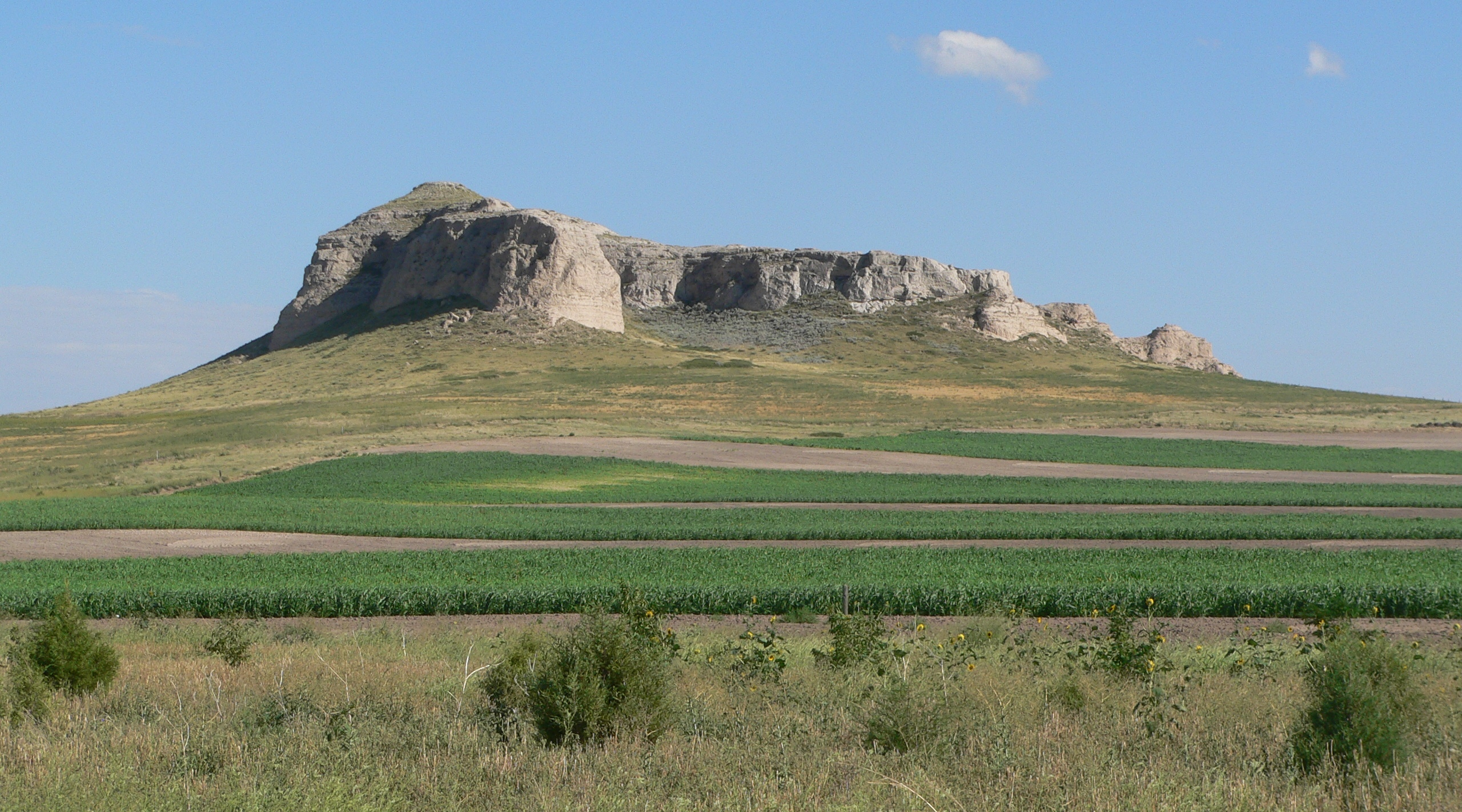 Gabe Rock, west of Harrisburg in Banner County, Nebraska; seen from the northwest. The green crops visible in the foreground are corn.